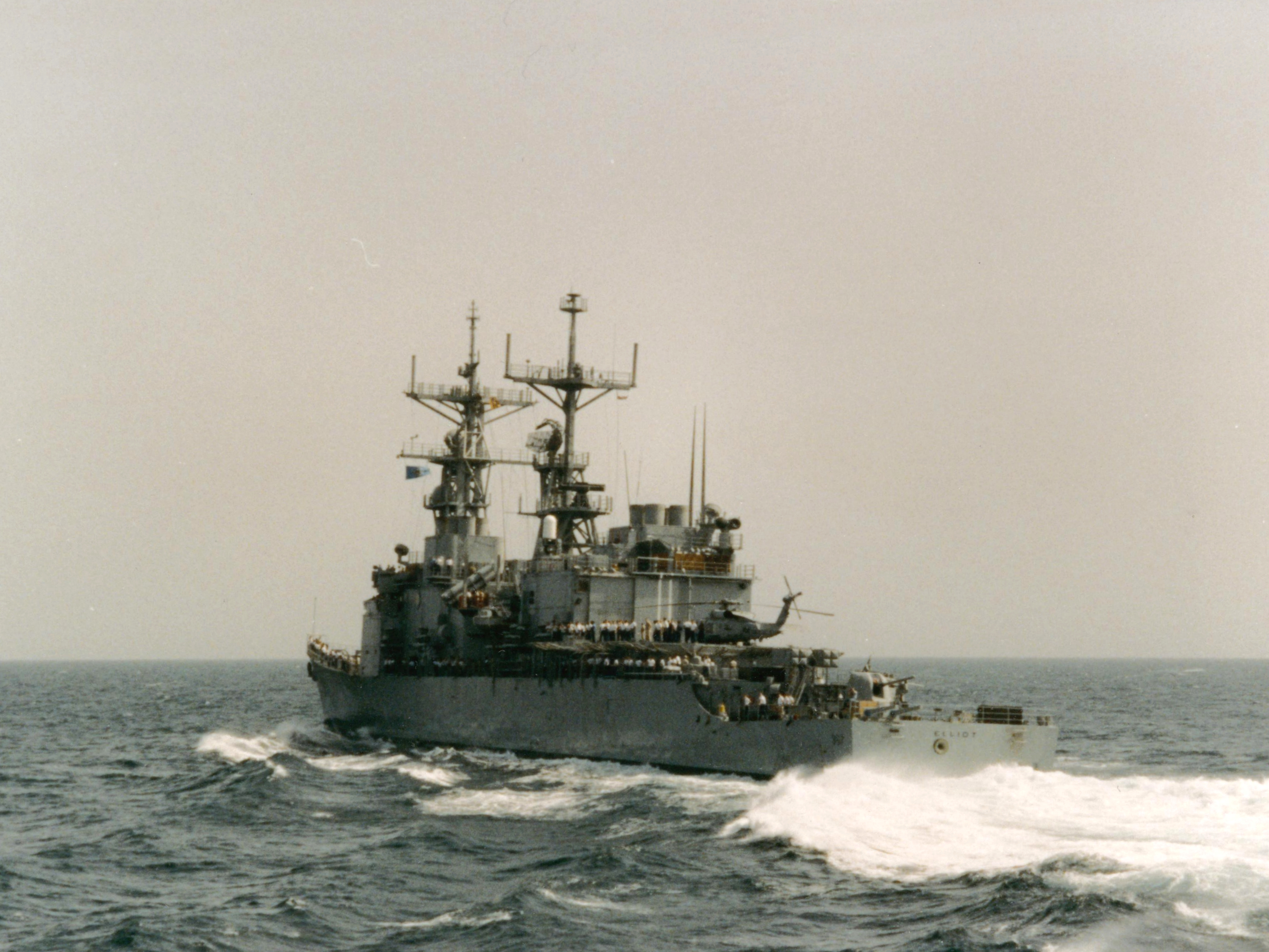 The U.S. Navy destroyer USS Elliot (DD-967) underway in the Persian Gulf, in 1991.